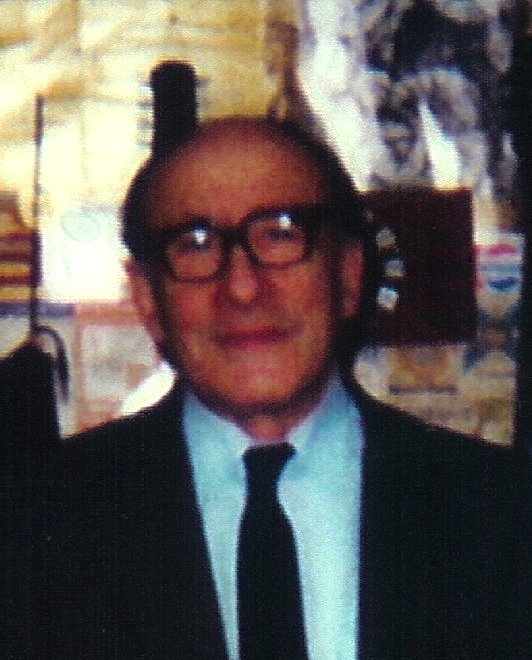 Depicted person: Philip Herschkowitz – Russian composer